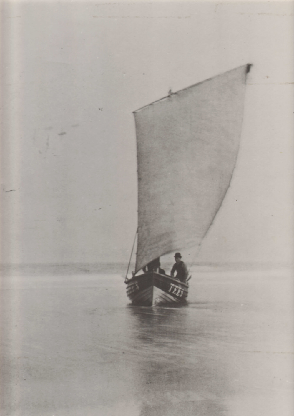 This rather majestic image shows a Tees Pilot coble returning to port under full sail. Photograph Collectio Number 702